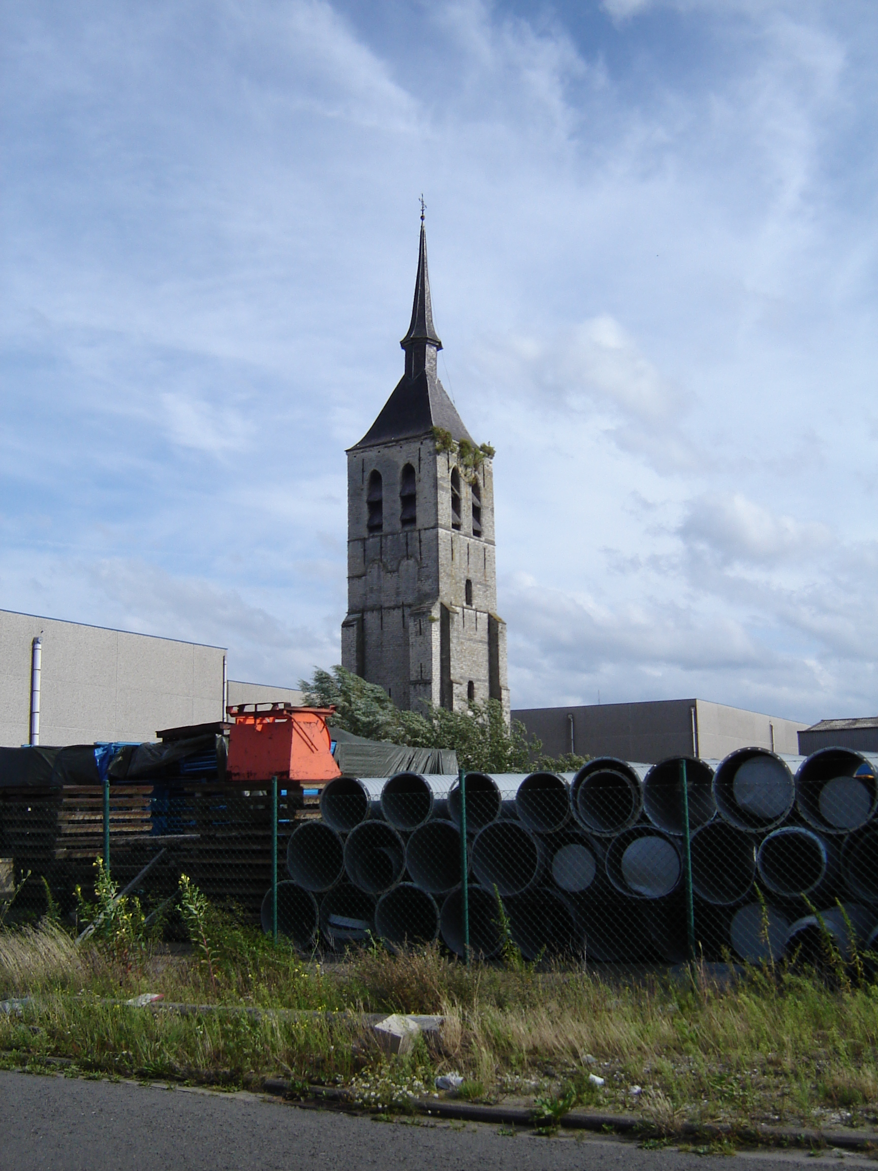 Church tower of the former Church of Saint Lawrence, all that's left from the former village Wilmarsdonk. Now in the middle of the Port of Antwerp. Wilmarsdonk, Antwerp, province of Antwerp, Belgium